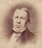 French sinologist Stanislas Julien (1862)